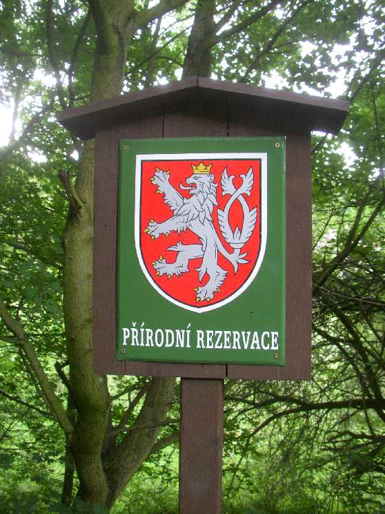 Panel with small coat of arms of the Czech Republic.